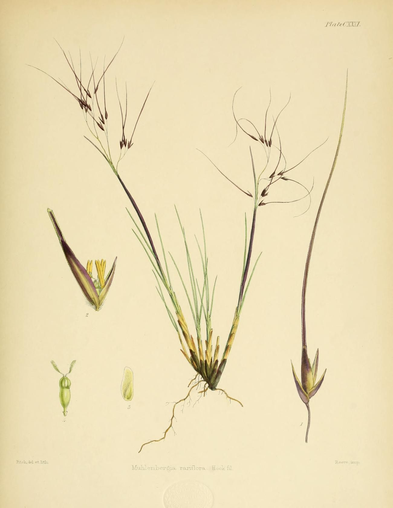 jpg of Plate CXXXI of Hooker's Flora Anatarctica. Muhlenbergia rariflora Hook. fil.